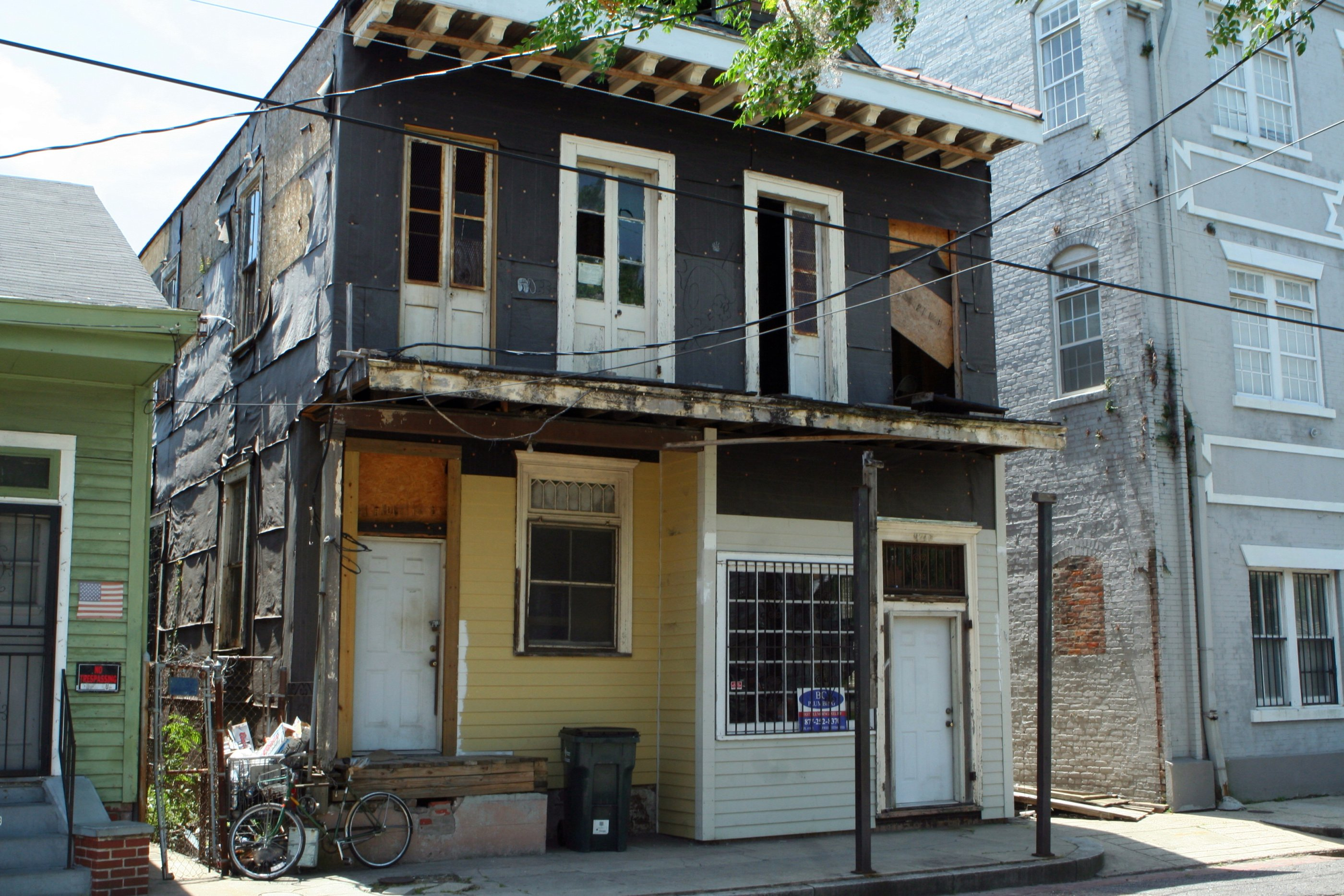 1738-40 Terpsichore Street, New Orleans. April 27, 2010